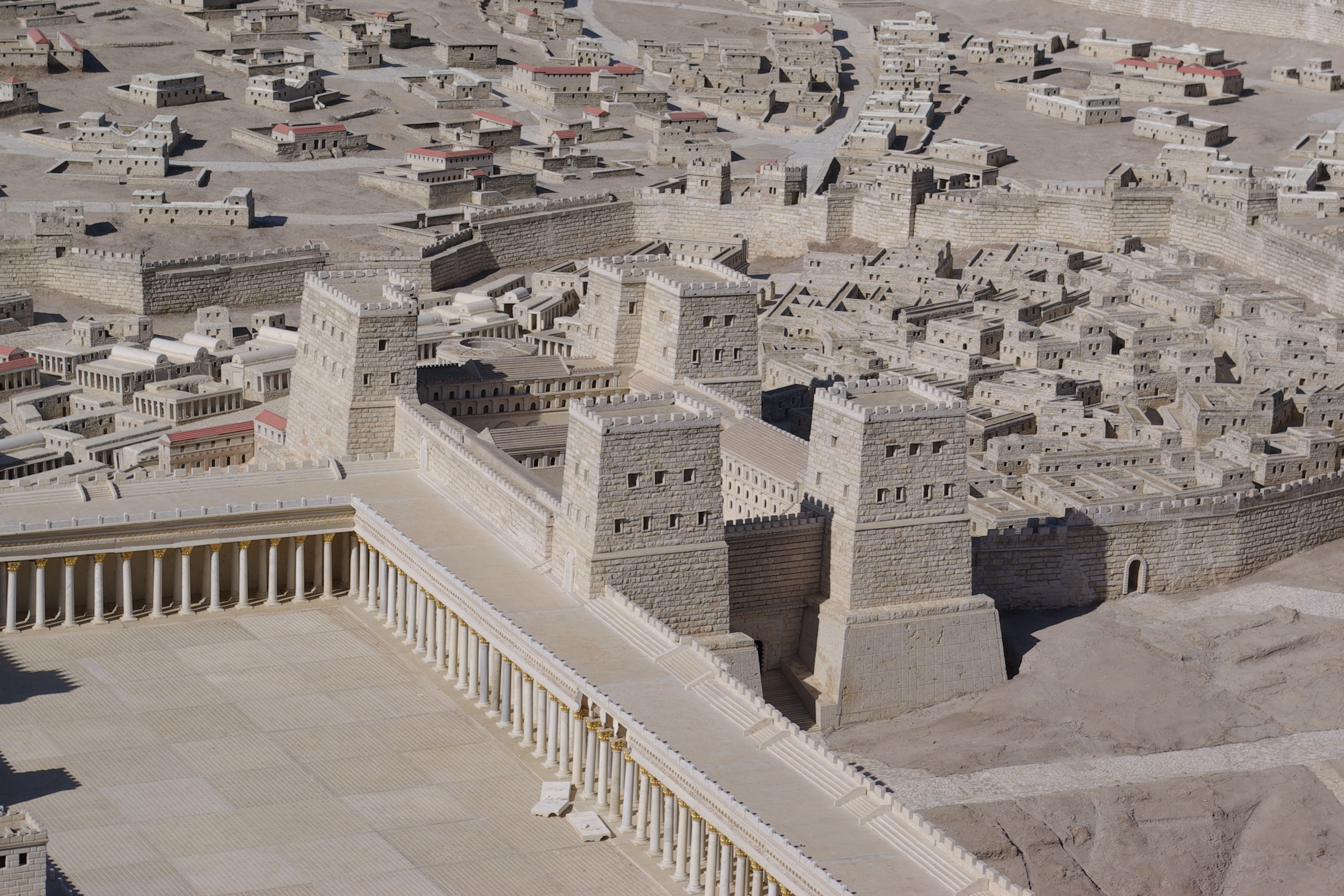 Jerusalem Model, Antonia Fortress